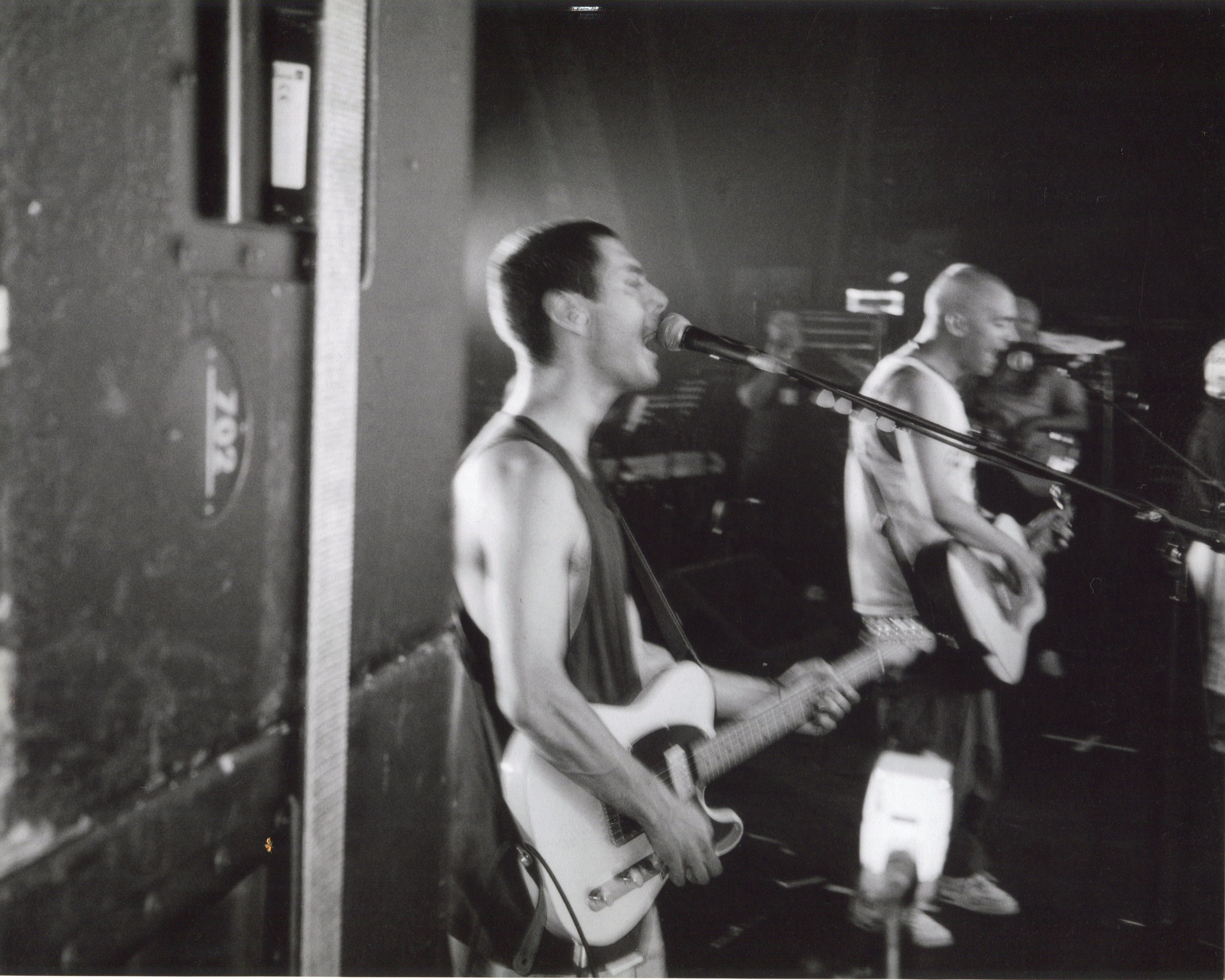 Simon Katz